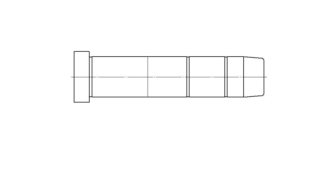 guide pin A